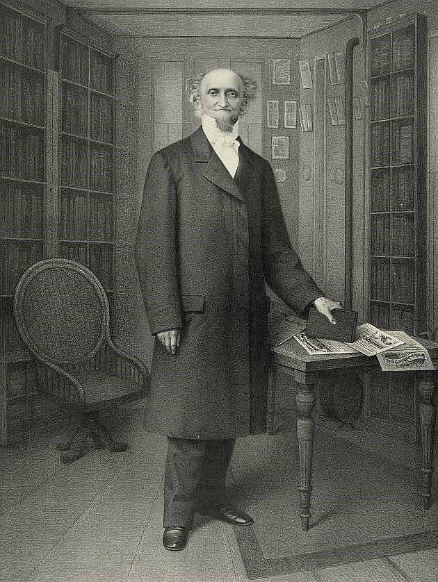 German-born American Lutheran theologian Carl Ferdinand Wilhelm Walther (1811-1887)